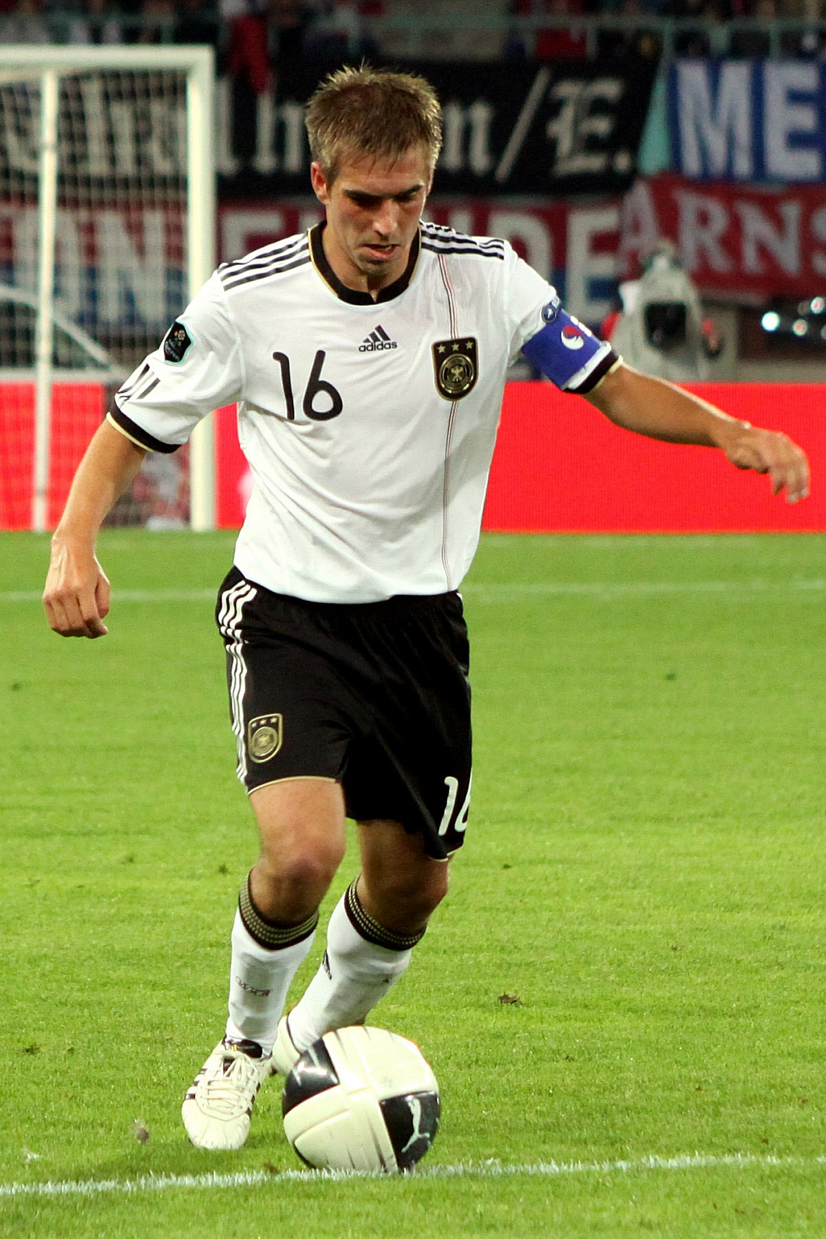 Philipp Lahm (FC Bayern Munich), german national football team